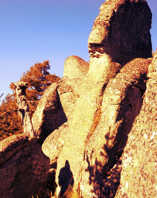 Megalithic_sanctuary_Kozi_kamuk_Bg_West_Rhodopes